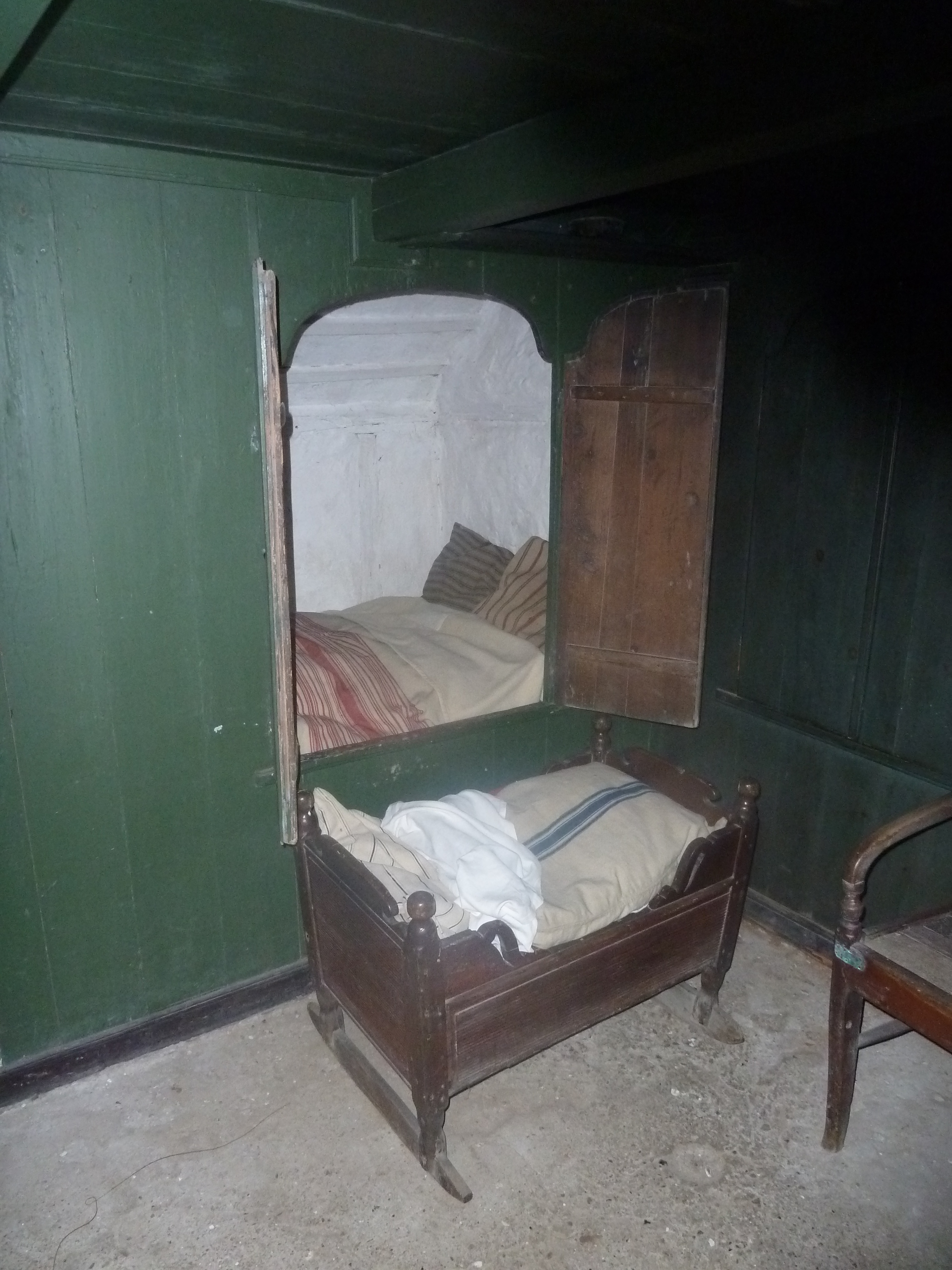 Fisherman's house from Agger, now on Frilandsmuseet (the open air museum) north of Copenhagen.